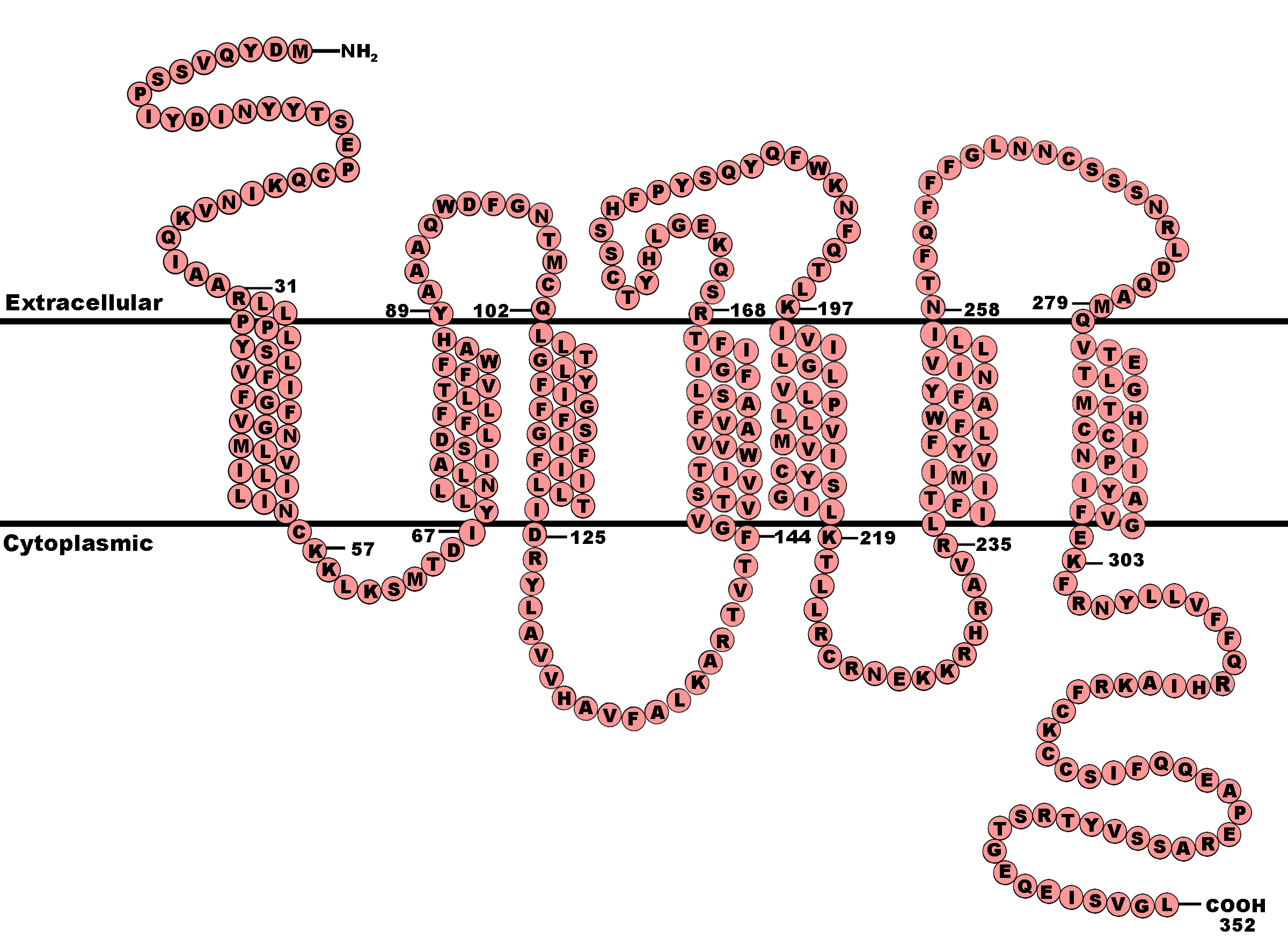 CCR5 is a seven membrane spanning G protein. Seen here is the primary sequence of the CCR5 receptor on the cell membrane